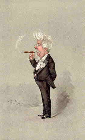 Caricature of Henry Lucy from British Vanity Fair magazine. Toby MP' for Berkshire. A journalist and politician. Wrote for many papers and publications. Large shock of grey hair. Smoking a large cigar. Coloured. Overall size c. 8x14 ins. By Spy. (Newspapers. Journalists. Politics. Writers)""